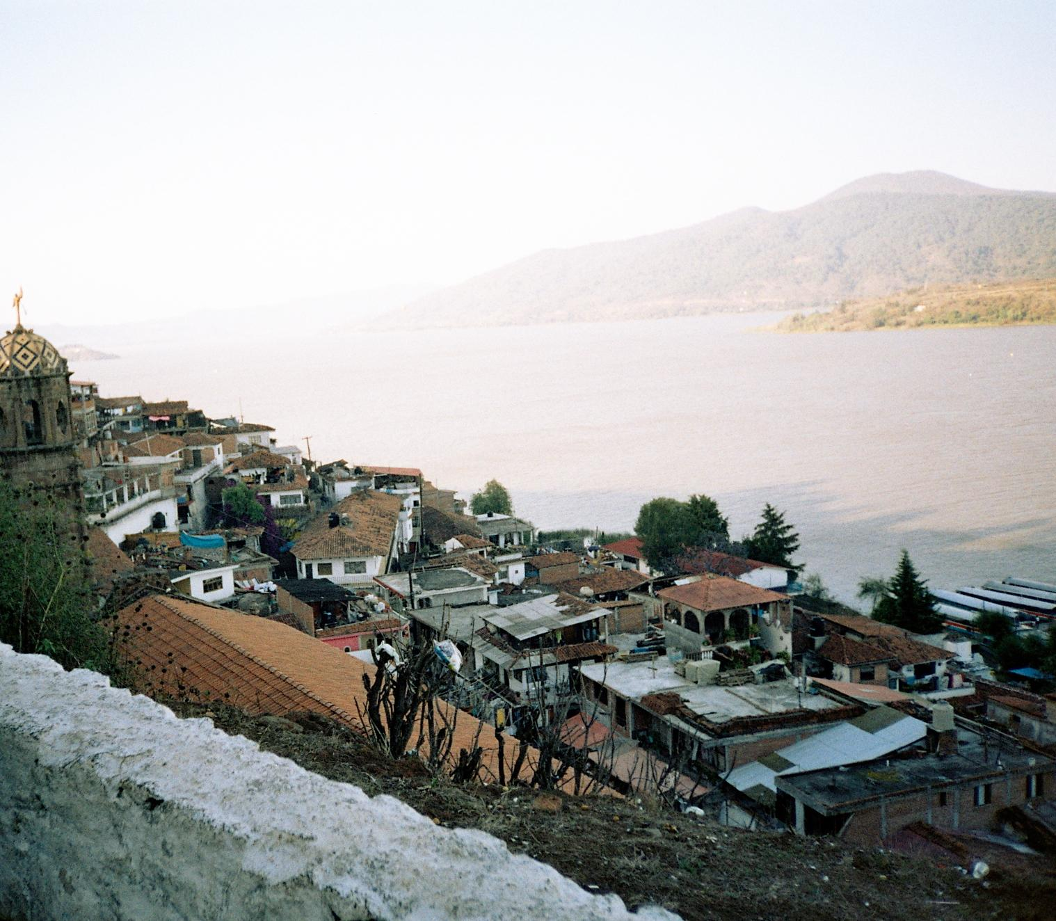 Picture taken from the Janitzio Island. Picture taken in the spring of 2005 by me.--Gengiskanhg 16:26, 1 November 2006 (UTC)